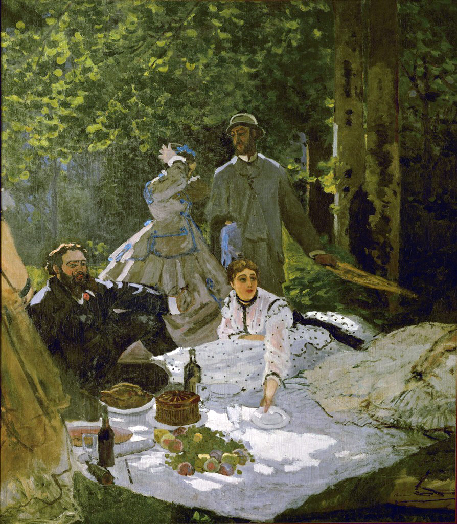 Right fragment.